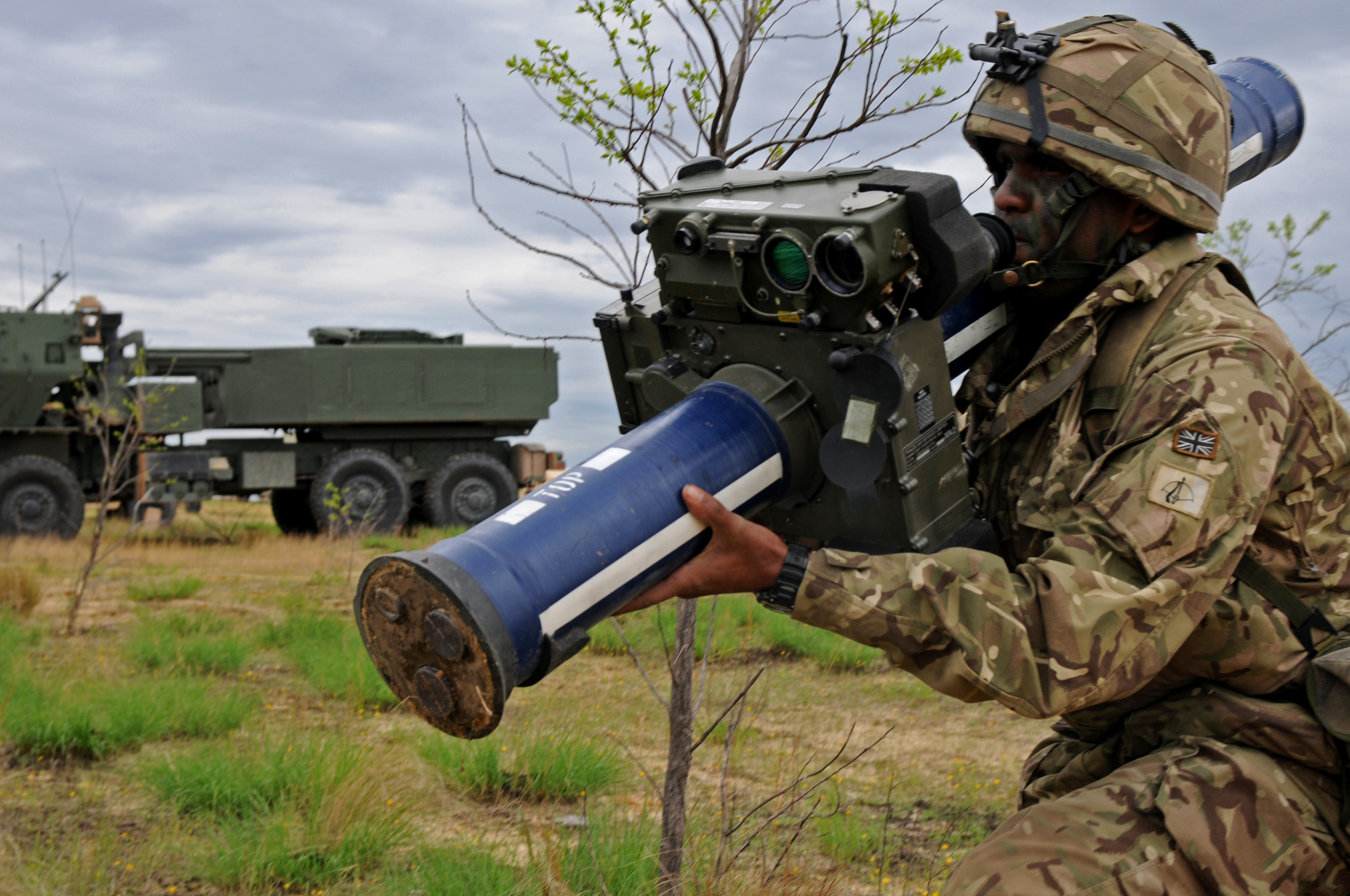 British Air Defense Artilleryman Lance bombardier Mozart Kydd protects the airfield with his High Velocity Missile System similar to U.S. Stinger Missiles during Combined Joint Operational Access Exercise here on Fort Bragg N.C. (Capt. Joe Bush, 82nd Airborne DIVARTY/ Released.)